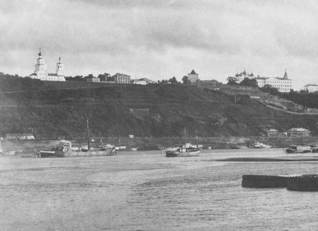 General view of the Volga slope, George Church and the Nizhny Novgorod Kremlin from the village of Bor.